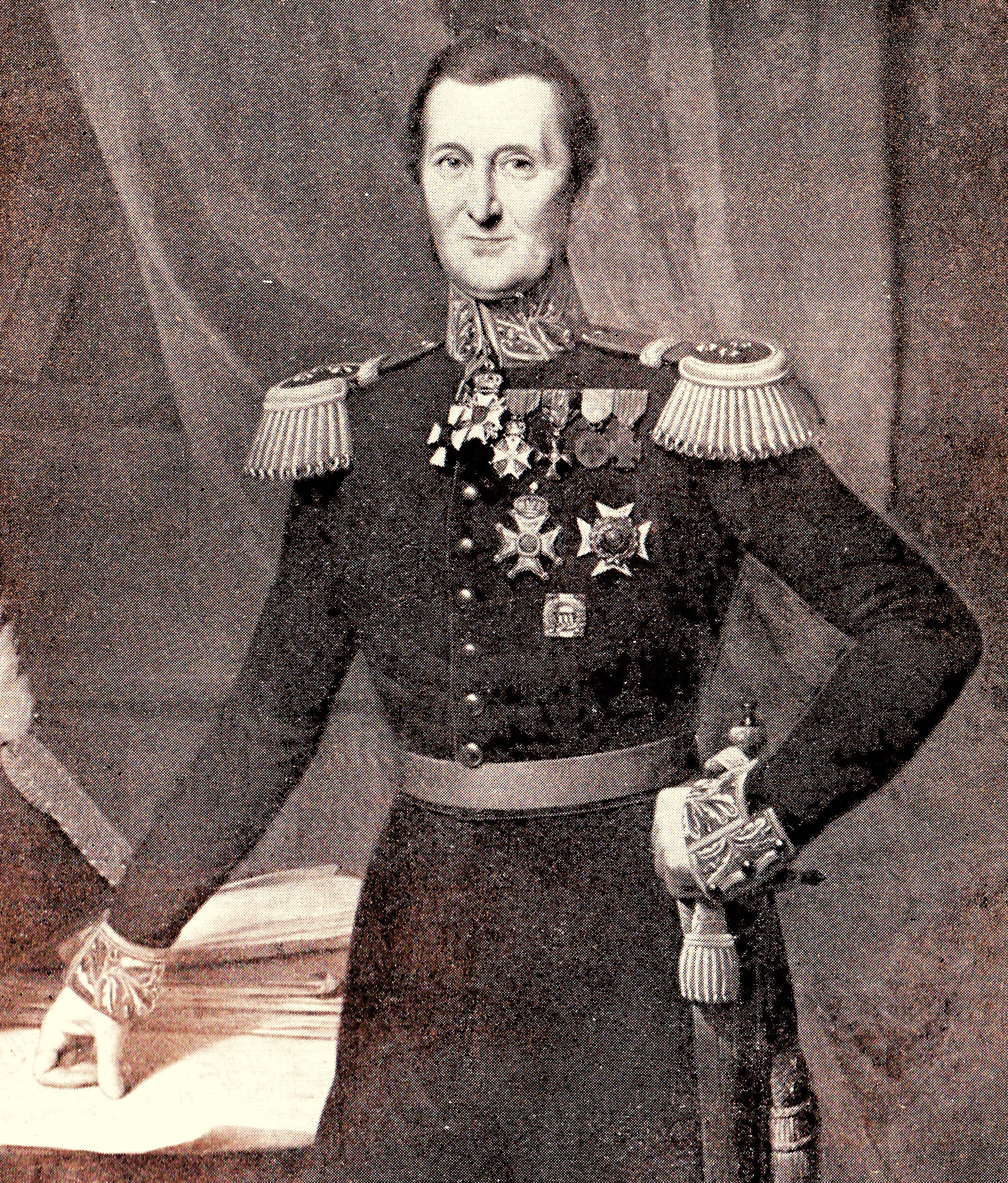 Generaal Seelig